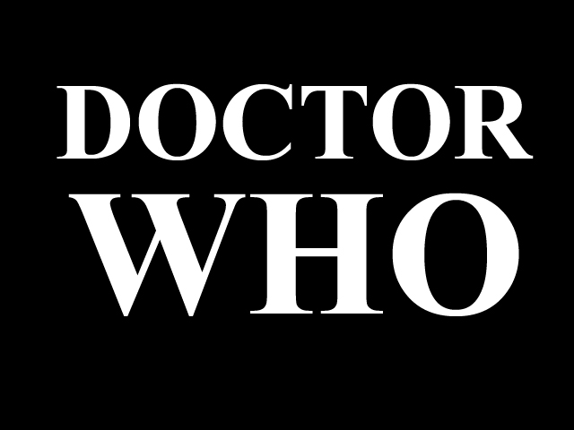 Doctor Who logo used from 1967 to 1969